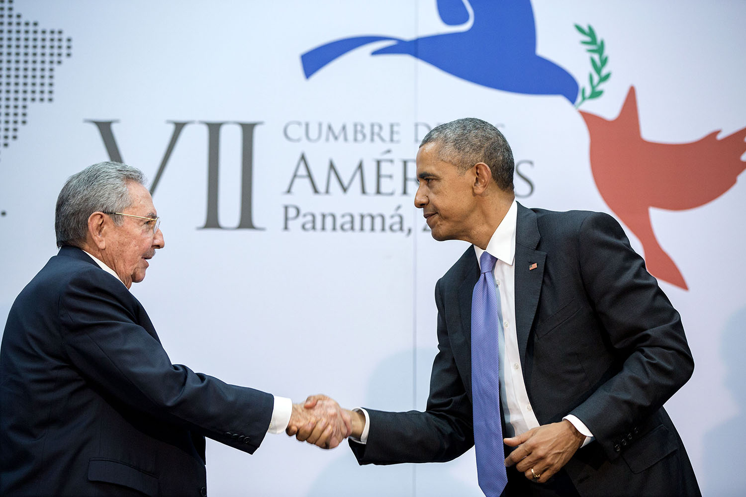 April 11, 2015 "The culmination of years of talks resulted in this handshake between the President and Cuban President Raúl Castro during the Summit of the Americas in Panama City, Panama." (Official White House Photo by Pete Souza)